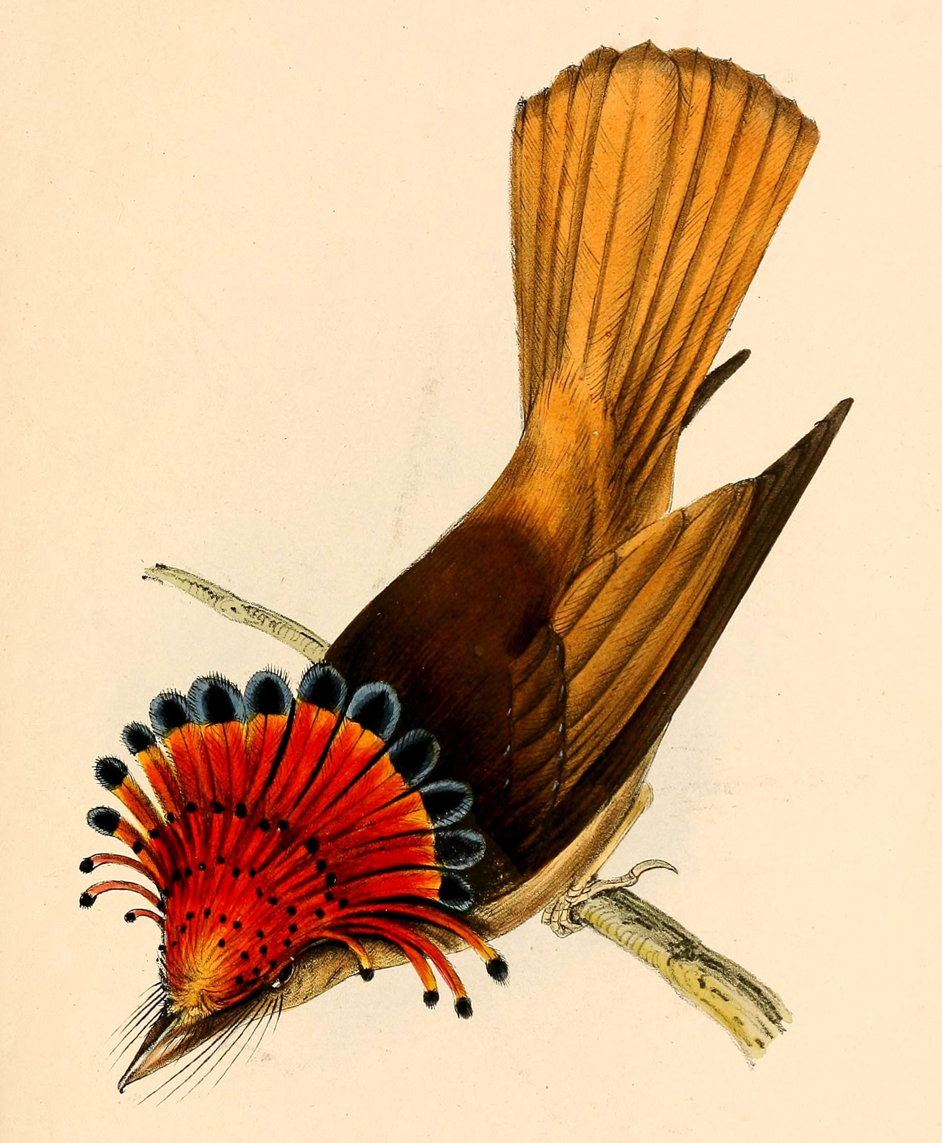 Megalophus regius = Onychorhynchus coronatus coronatus (Subspecies of Amazonian Royal Flycatcher)